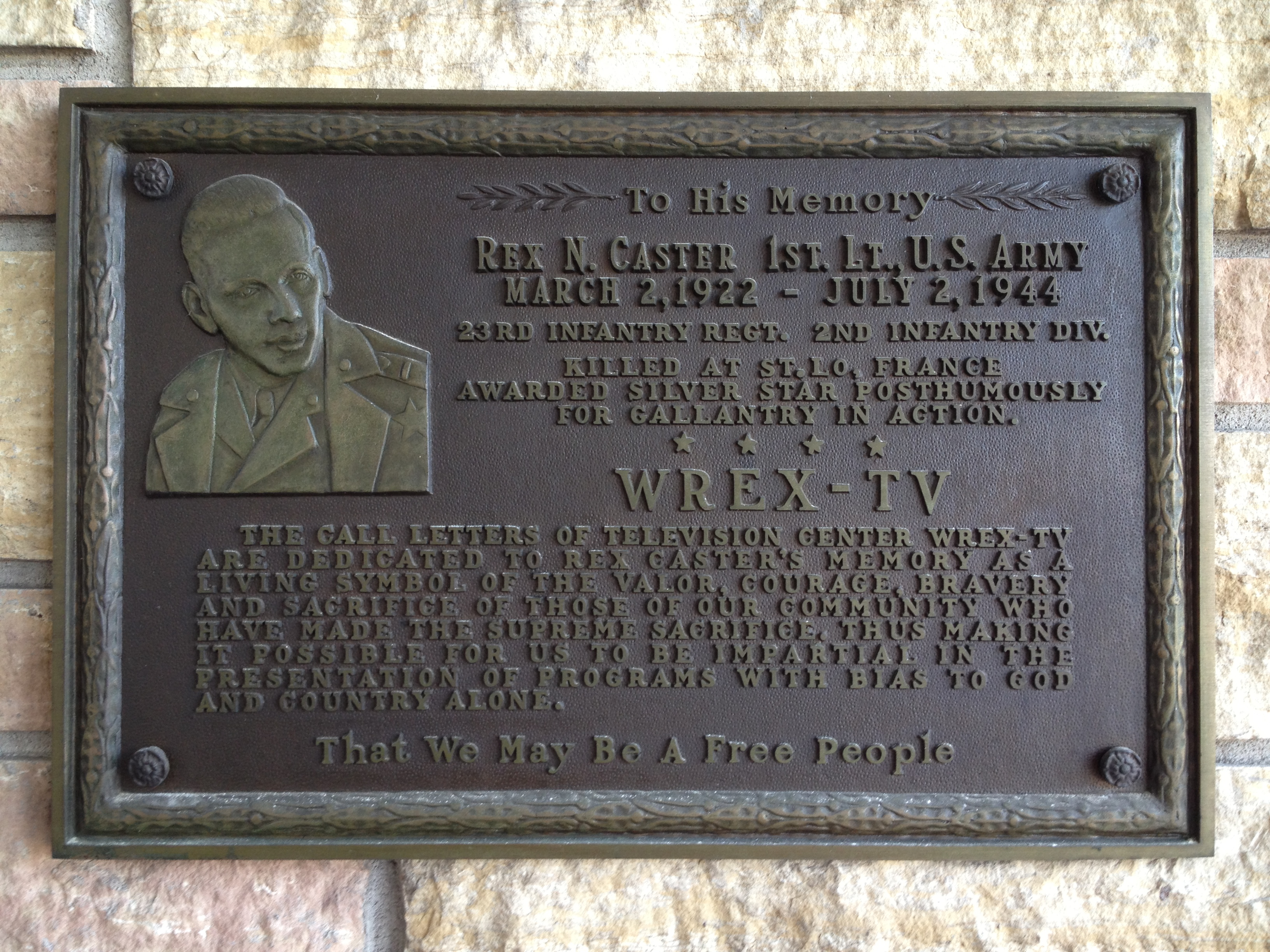 A plaque mounted at the entrance of television station WREX in memory of the station's namesake, 1st Lt. Rex N. Caster